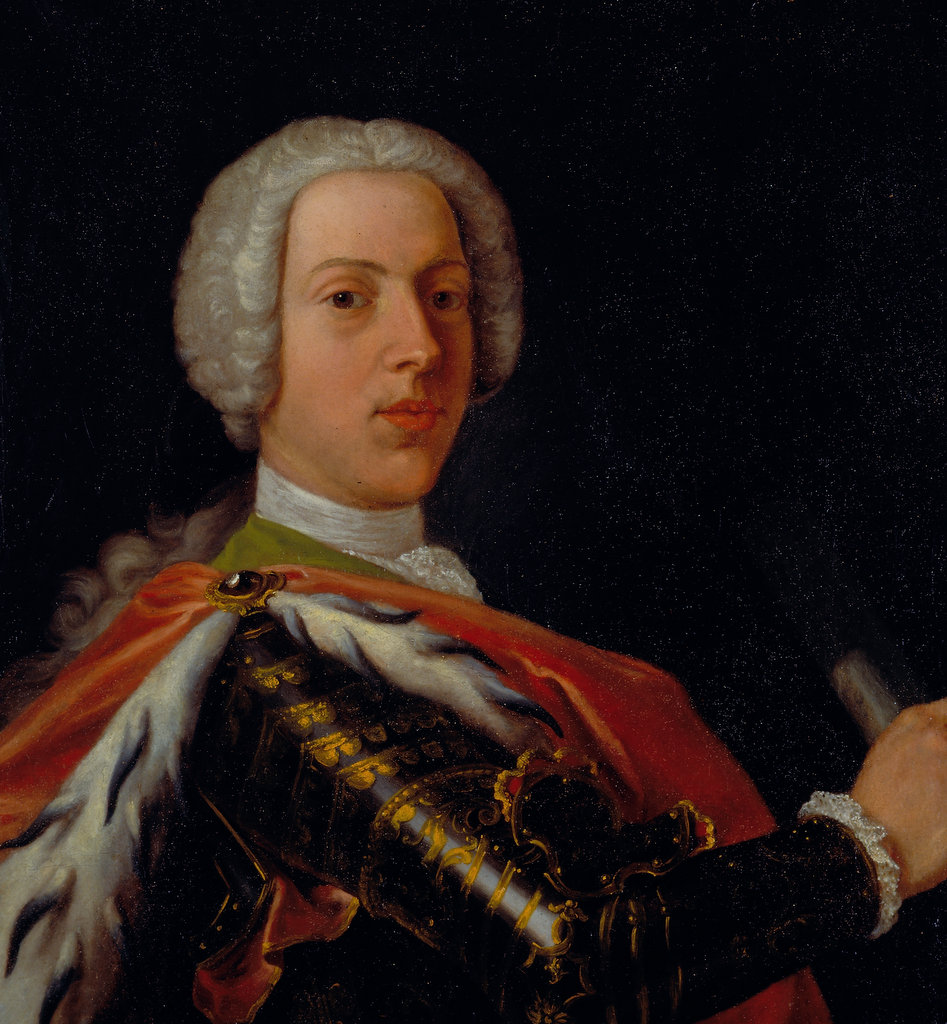 Portrait of Prince Charles Edward Stuart by Cosmo Alexander. Oil on canvas. Collection of the The Stirling Smith Art Gallery and Museum